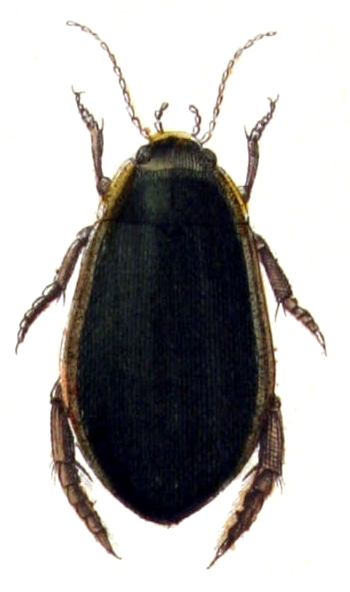 Cybister laterimarginalis female, from Calwer's Käferbuch, Table 7, Picture 2. Taxonomy was updated to 2008, using mostly the sites Fauna Europaea and BioLib. Please contact Sarefo if the determination is wrong!